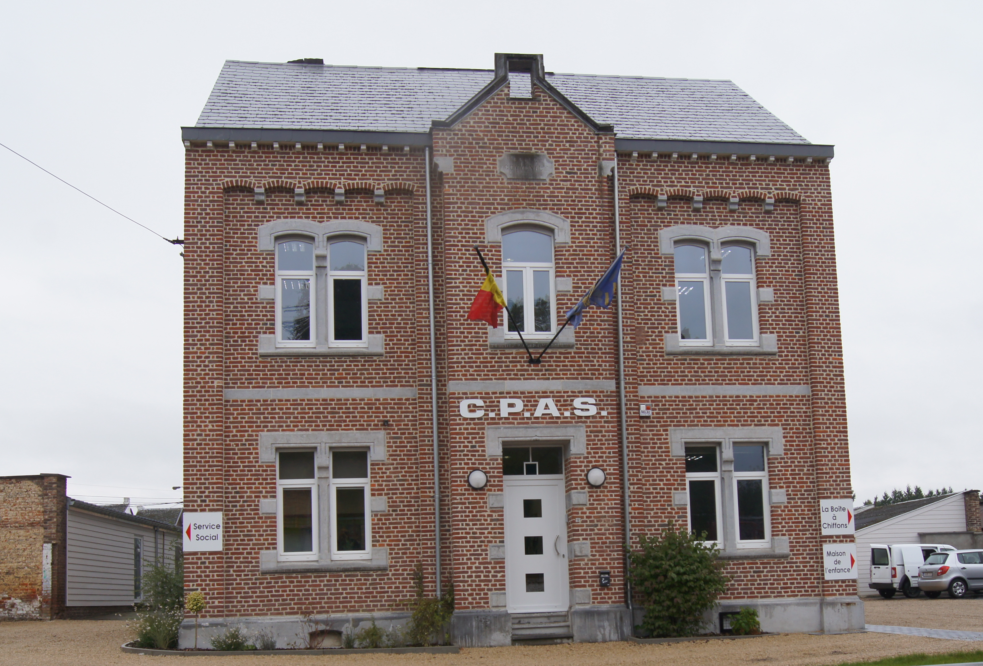 Dalhem (Warsage), Belgium: Public Centre for Social Welfare